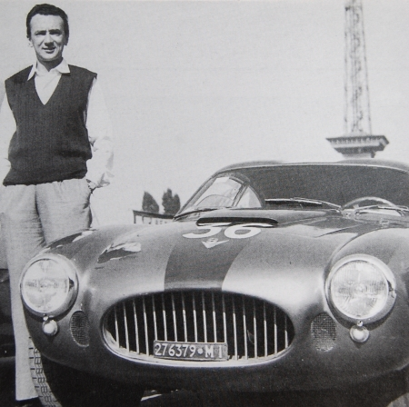 Italian car designer Elio Zagato (1921–2009) next to a Fiat 8V Zagato, possibly chassis no 000084, license "276379 MI". These cars were made 1953–55,[1] and this particular chassis was mentioned in the Mille Miglia 1956. Elio Zagato also raced this particular car in the 1955 Stella Alpine.[2]. Possibly this picture is from 1955.